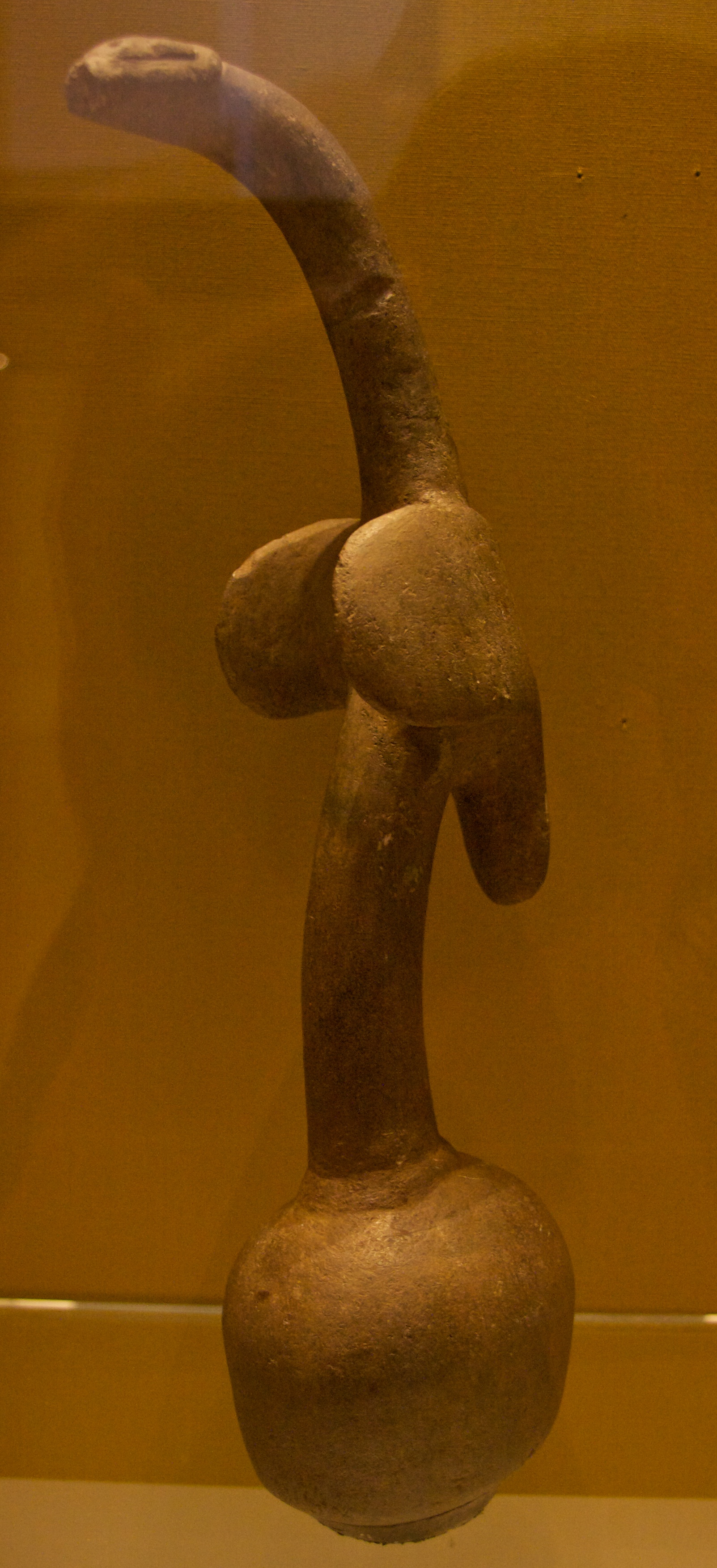 Bird-shaped pestle. Object 6 of 100. British Museum.